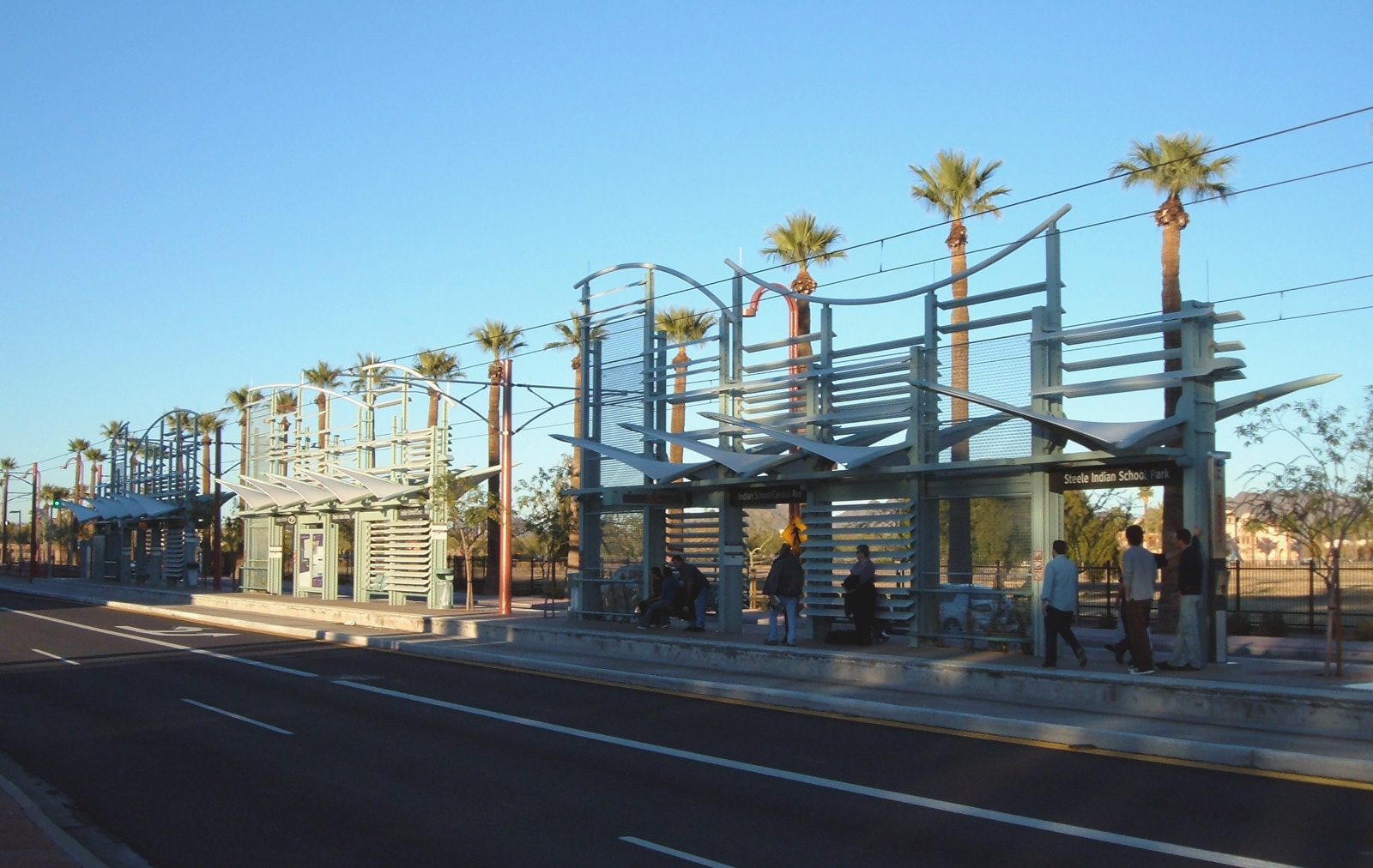 The Steele Indian School Park (Central at Indian School) Station — of the METRO Light Rail that serves the Phoenix metropolitan area in Arizona. Visible in the background is Steele Indian School Park, location of the Phoenix Indian School landmarks. This photograph was taken on December 29, 2008.